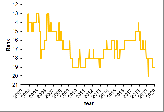 IRB World Rankings from